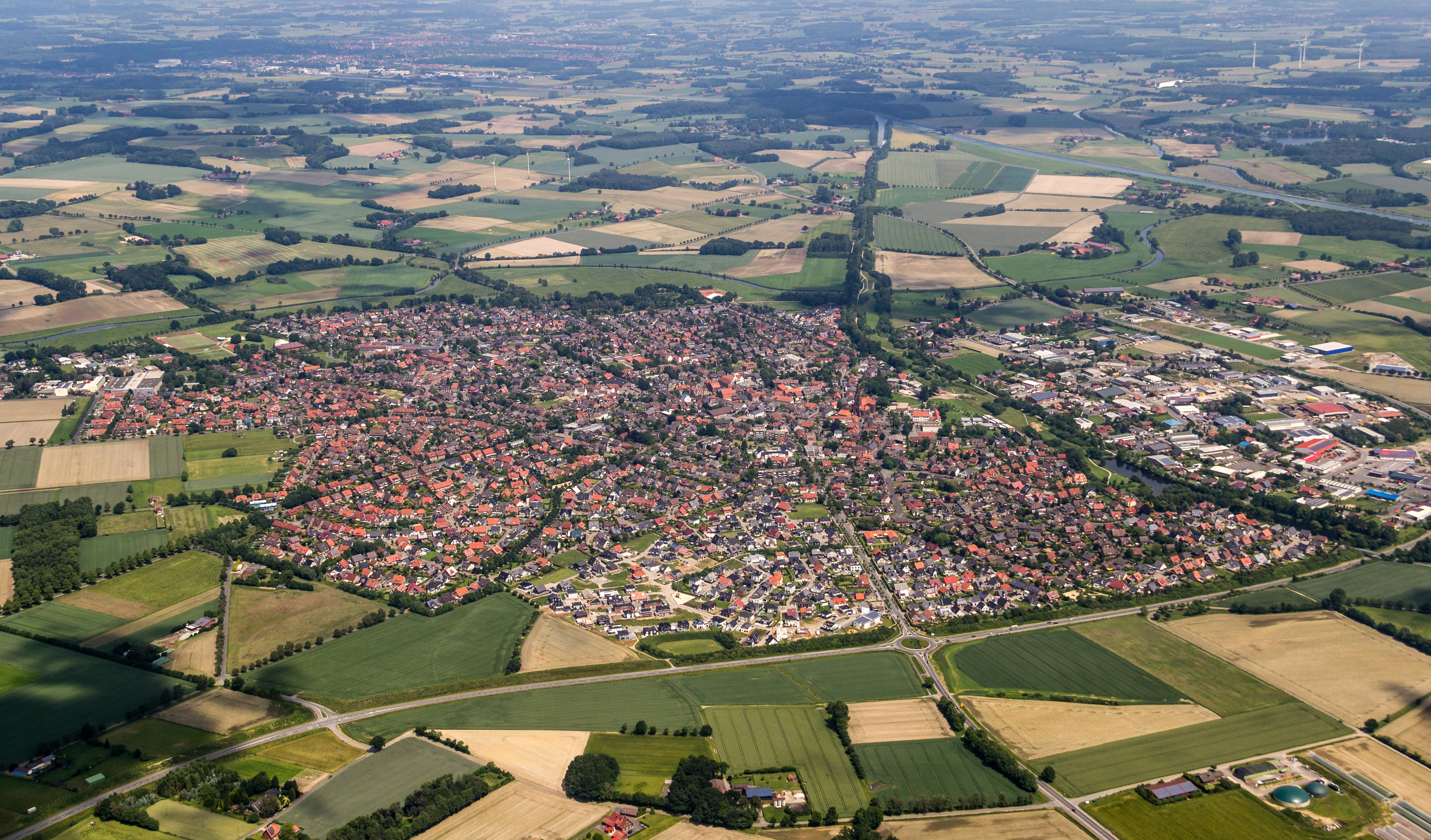 Olfen, North Rhine-Westphalia, Germany